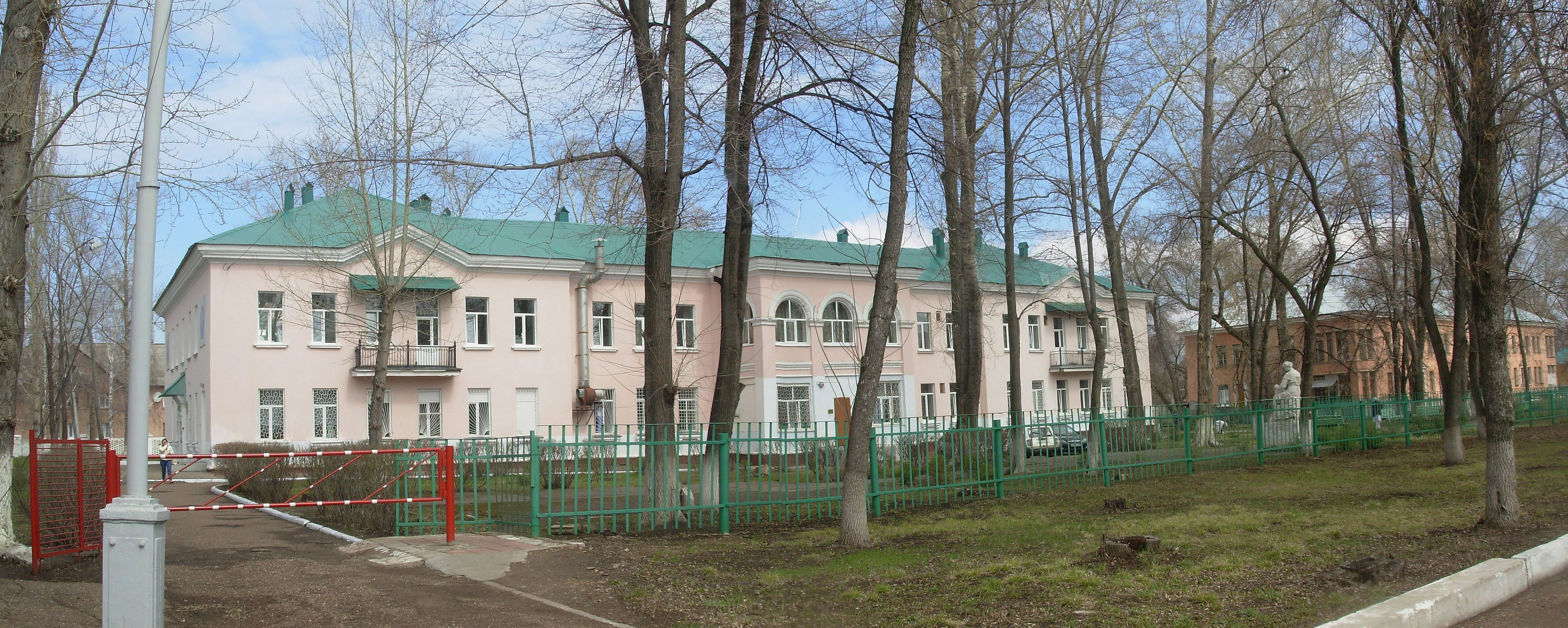 Тубдиспансер в Салавате